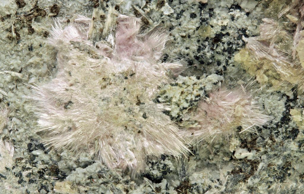 Ashcroftine-(Y) Locality: Poudrette quarry (Demix quarry; Uni-Mix quarry; Desourdy quarry; Carrière Mont Saint-Hilaire; MSH), Mont Saint-Hilaire, La Vallée-du-Richelieu RCM, Montérégie, Québec, Canada FOV ~ 2.8 cm wide Ex Jean-Pierre Beckerich. MOB coll. The color is pale lilac. A few of the xls are just big enough to show a square cross section under high magnification File:Ashcroftine-(Y)-531183.jpg. The matrix is igneous breccia. Associated minerals include terminated dark gray/green elpidite File:Elpidite, Ashcroftine-(Y), Calcite-531182.jpg yellow calcite, "ancylite" and (probably) sérandite(!) File:Serandite-531184.jpg. The sérandite has a habit very similar to that shown in [1] which is (probably) from an analyzed find. Some unid minerals are present as well.